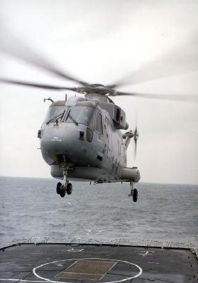 EH101 Merlin landing on an fregate